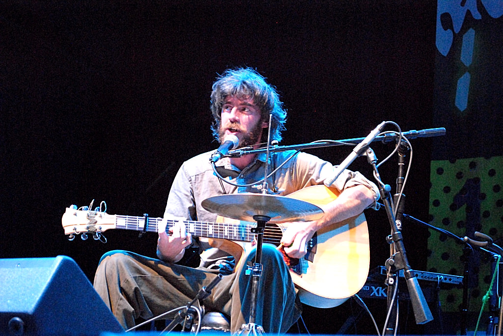 Tim Scanlan at the Filmore in Silver Springs, MD